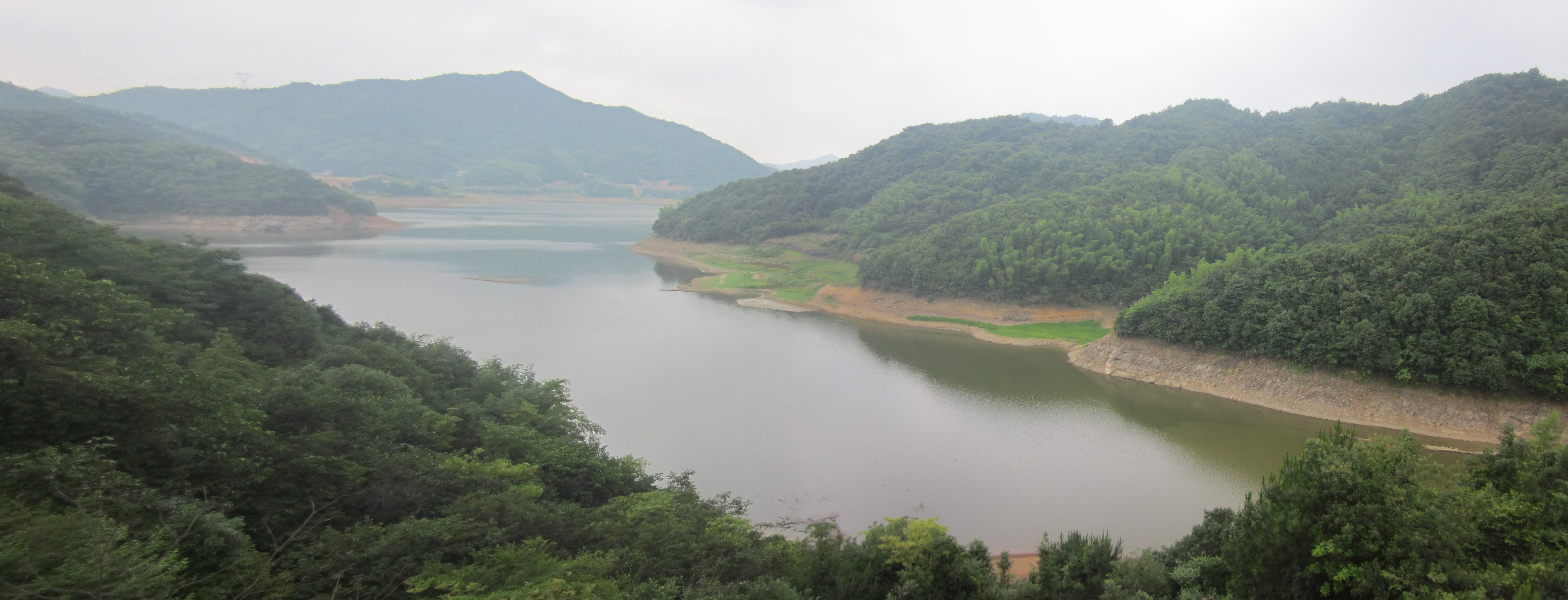 The Hedong Reservoir in Hutian Town of Xiangxiang, Hunan, China, 13 June 2018.